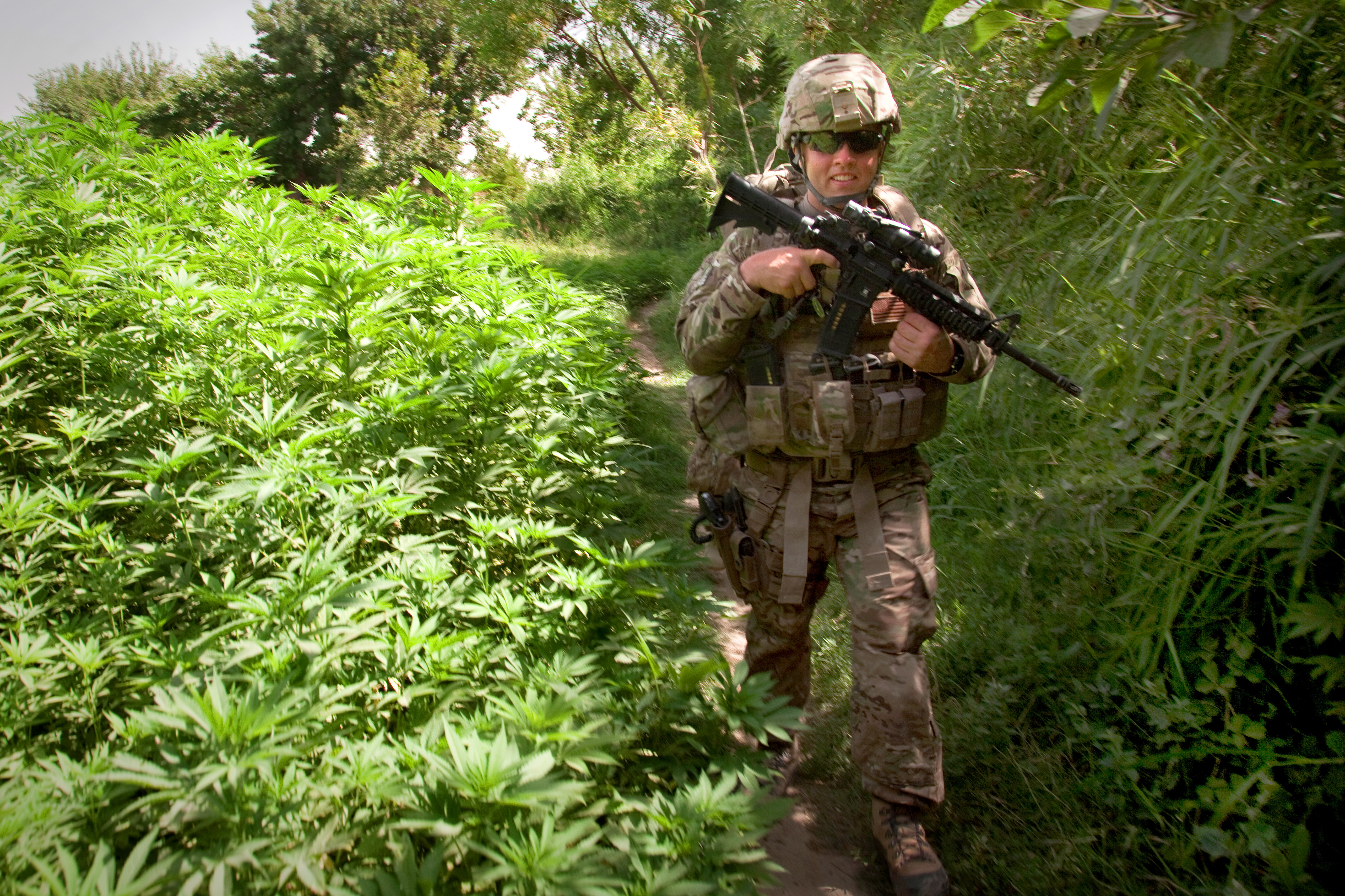 U.S. Army Spc. Josh Brimm walks past a large marijuana crop after completing a mission led by U.S. Army soldiers to patrol Malajat, Afghanistan, June 4, 2011. Brimm is assigned to the 307th Psychological Operations Company.